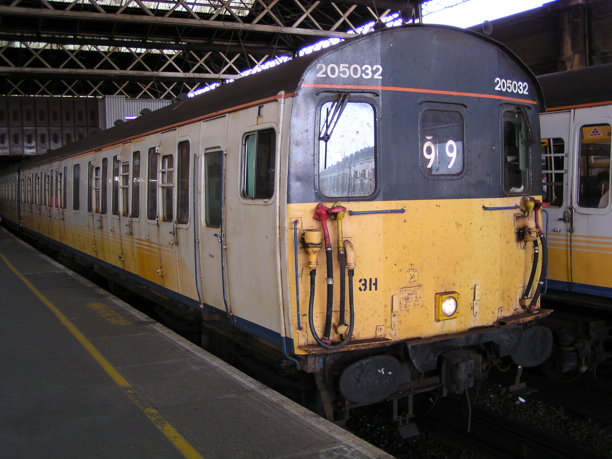 British Rail Class 205 No. 205032 at London Bridge on 15th August 2003, with a service to Uckfield. These units have now been replaced on Southern by new Class 171 Turbostar units.